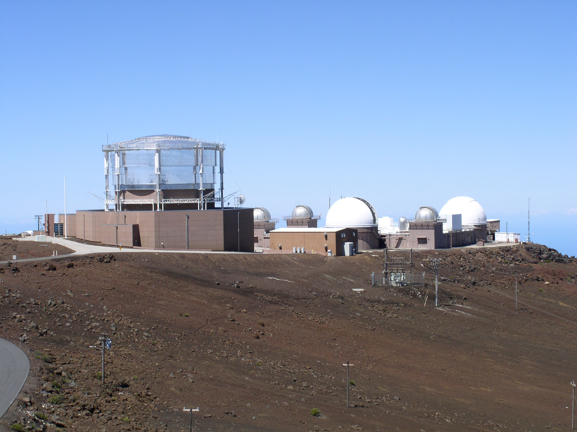 Haleakala Observatory — the telescopes on Haleakala volcano.